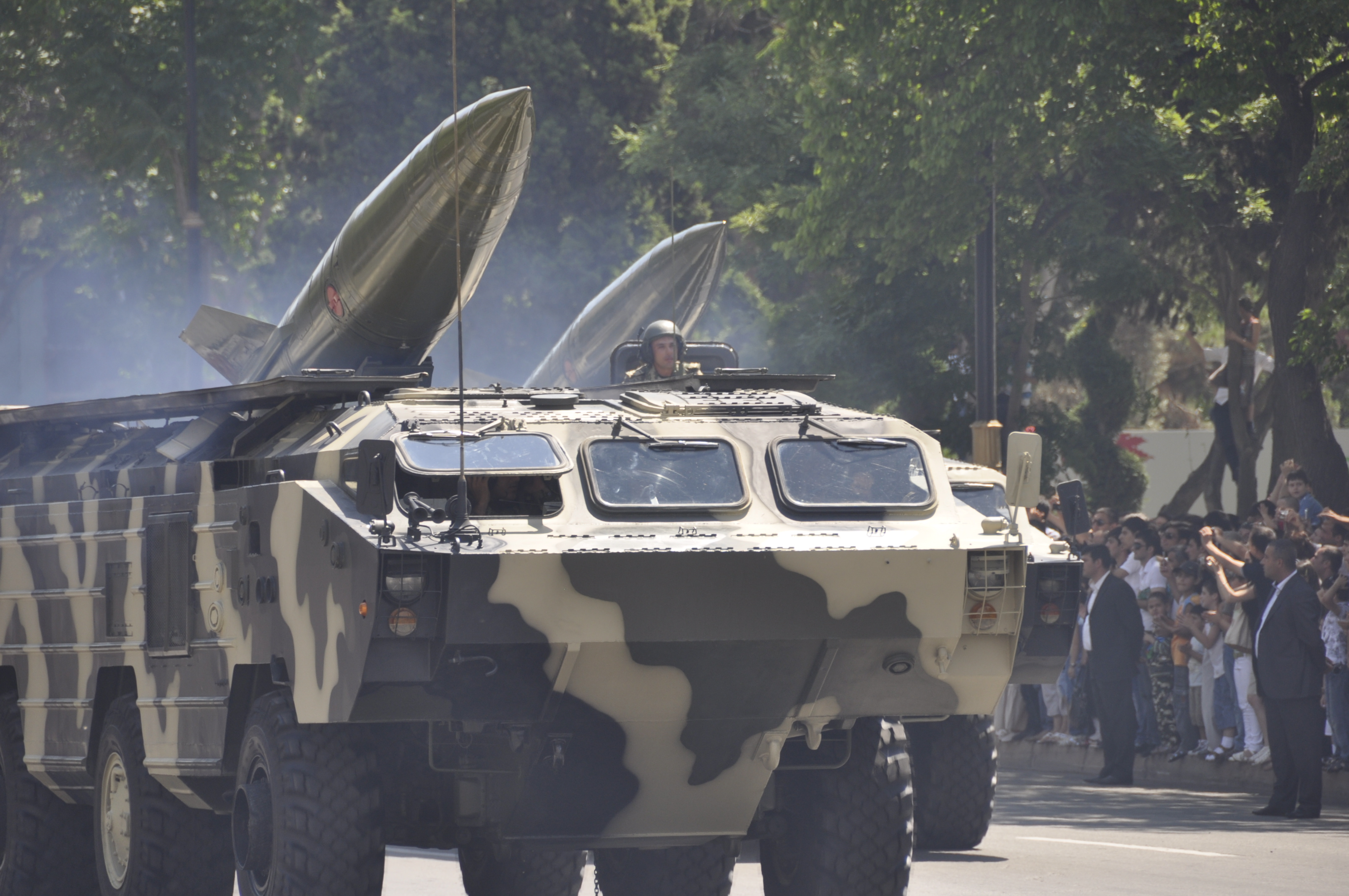 Military parade in Baku on an Army Day